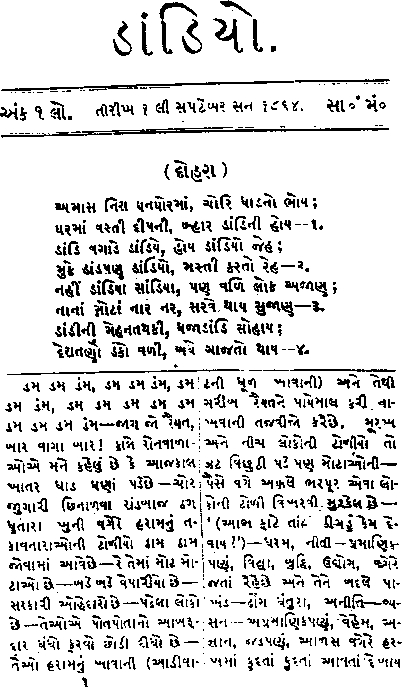 Daandiyo (dated 1 September 1864 First Issue) , a Gujarati biweekly published from 1864 to 1869 by Narmadashankar Dave, Gujarati author